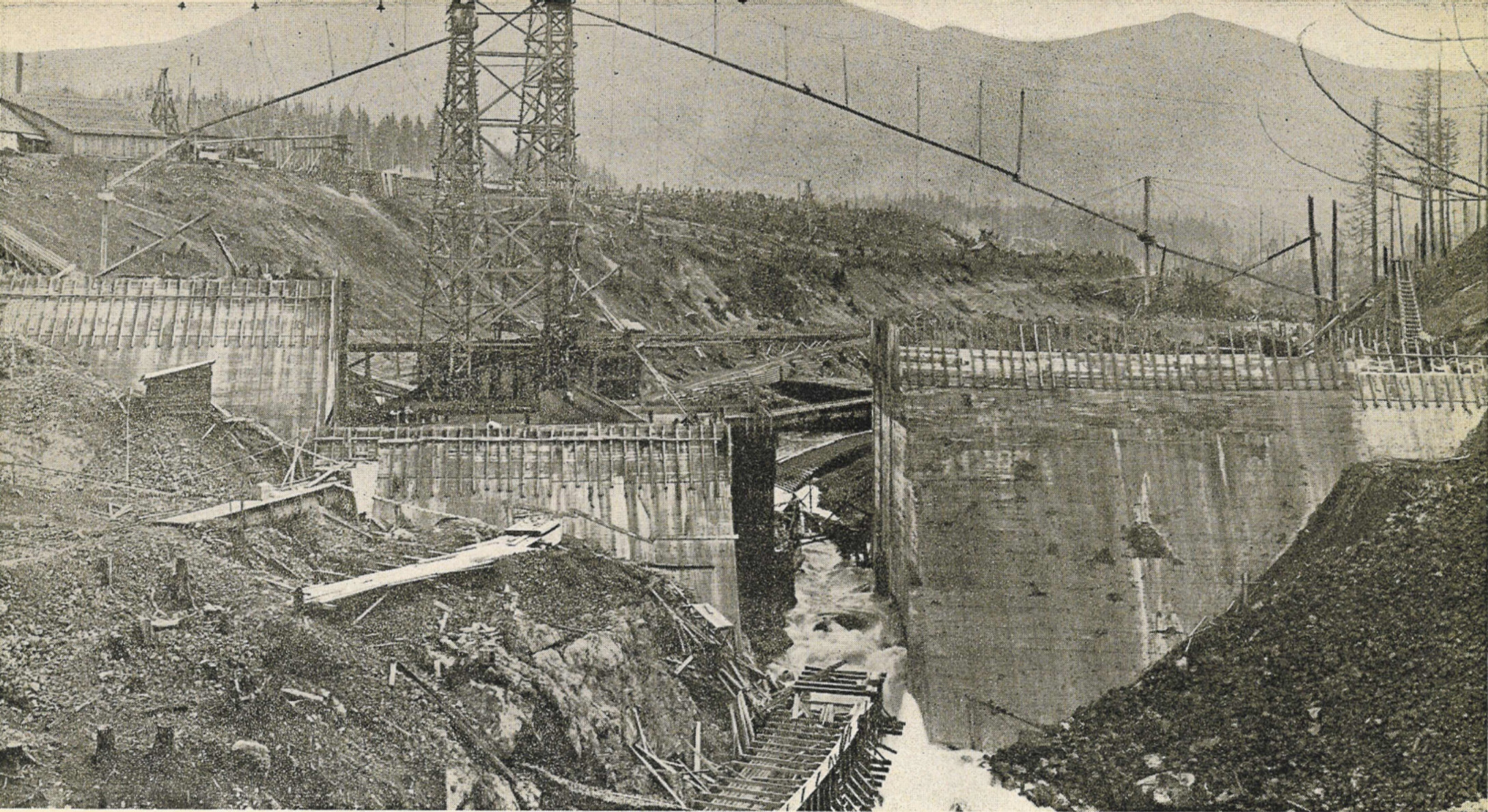 Description in the published source (1919): "The dam across Cedar River Canyon in course of construction." This was part of the process of creating Seattle's Cedar River water supply.